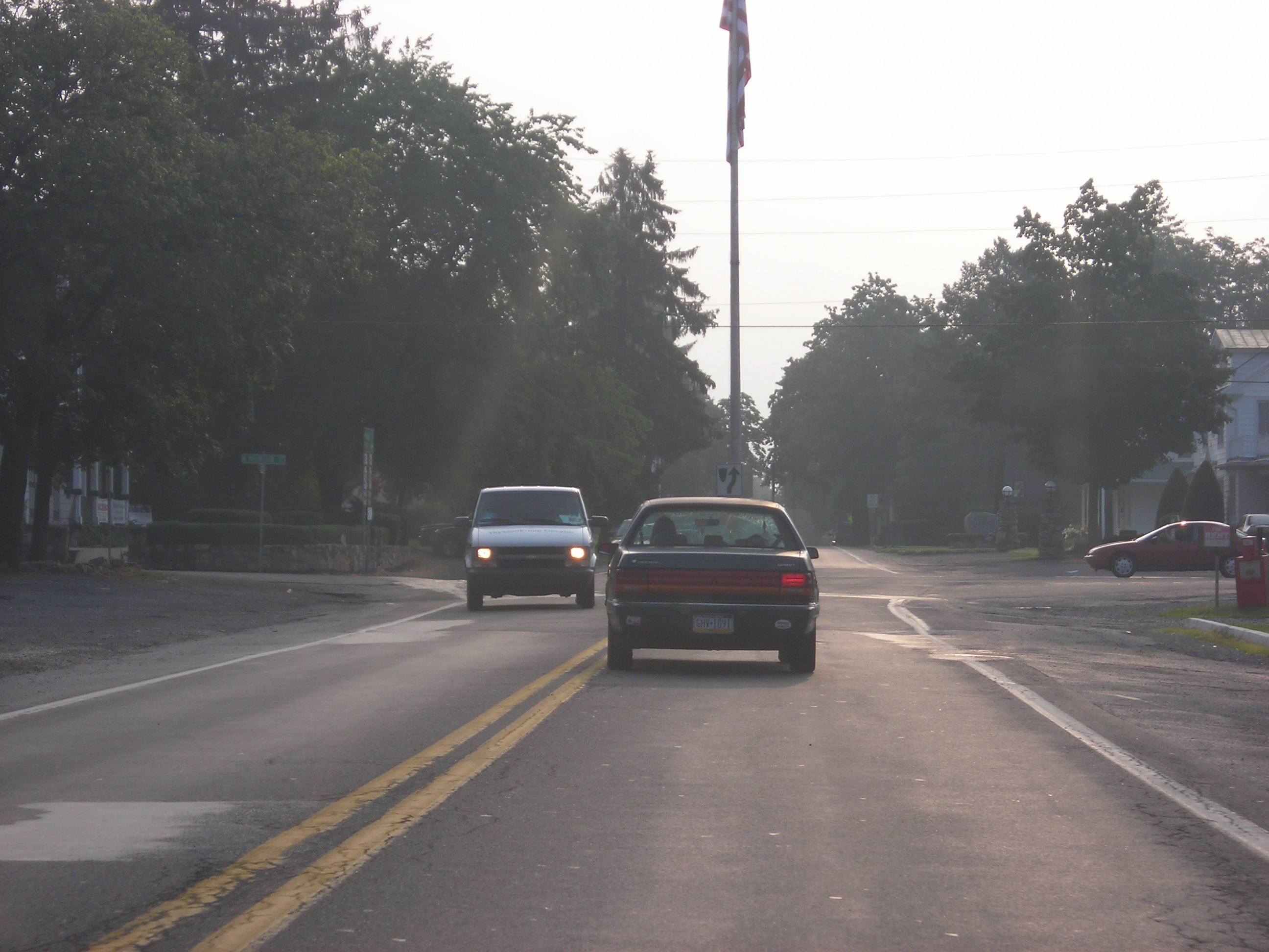 Pennsylvania Route 39 in the square of Linglestown, prior to the road being upgraded to a roundabout, from 2007.